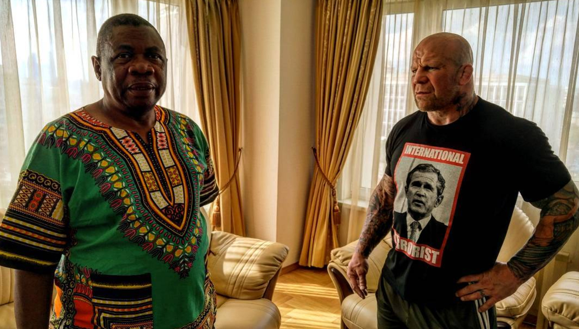 Legendary MMA fighter Jeff Monson and Ambassador of Zimbabwe to Russia Mike Nicholas Sango in Moscow.